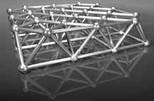 Spaceframe embodiment by the GEO System (2)